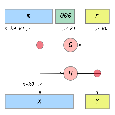 OAEP diagram